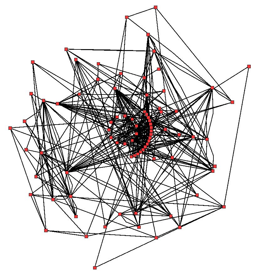 Metabolic network showing the links between enzymes and metabolites that interact with the Arabidopsis TCA cycle KEGG classification M00009. Enzymes and metabolites are the nodes (red), interactions are the lines. In total, 43 enzymes and 40 metabolites are shown. Created on Cytoscape using data from VirtualPlant 0.9.